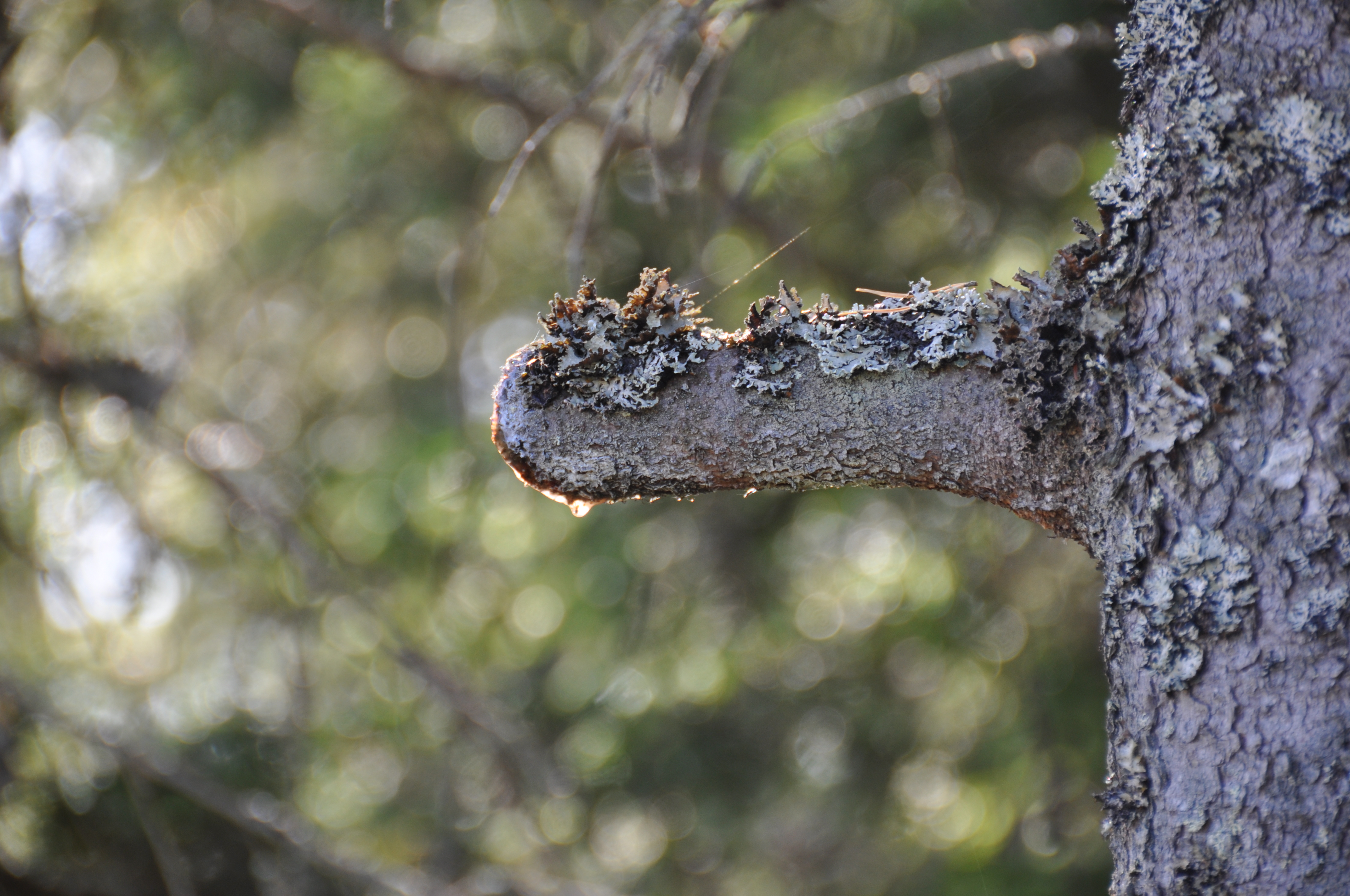 A beautiful autumn afternoon where the sun shines on a piece of tree